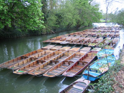 Punts on the River Cherwell in Oxford, England.